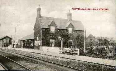 Snettisham Railway Station, nr Kings Lynn, Norfolk